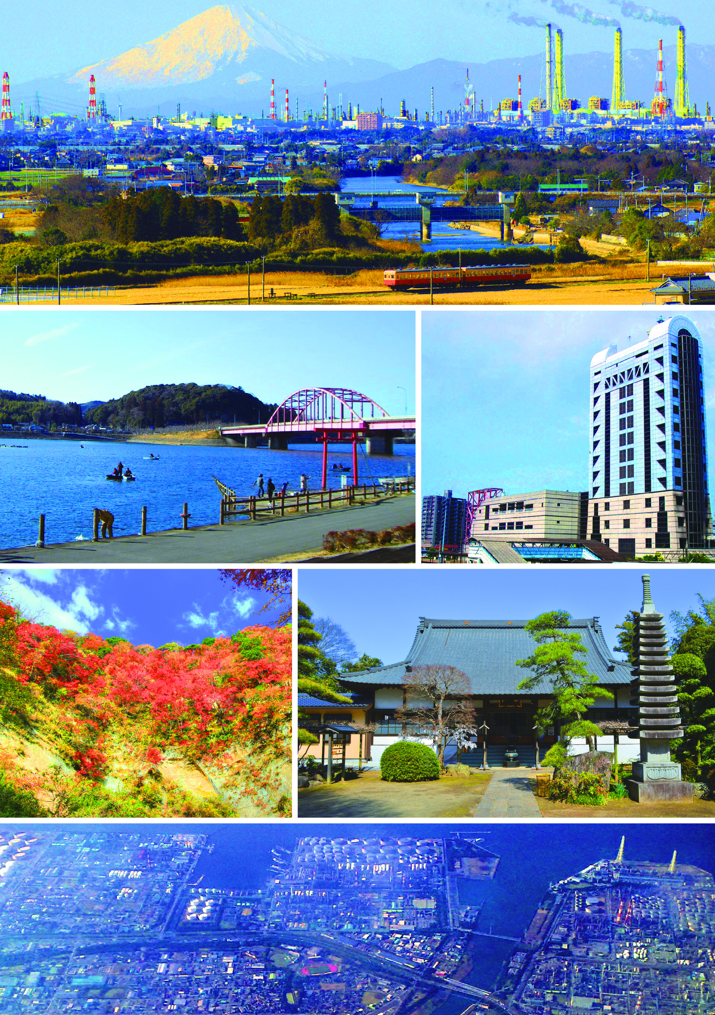 Ichihara montage.jpg